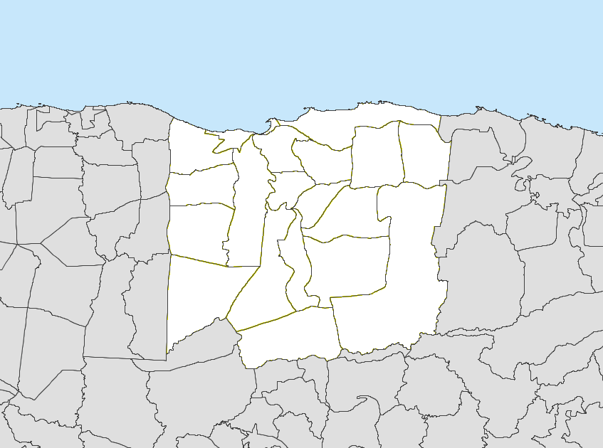 Barrios in the municipality. Map scale is 1:200,000